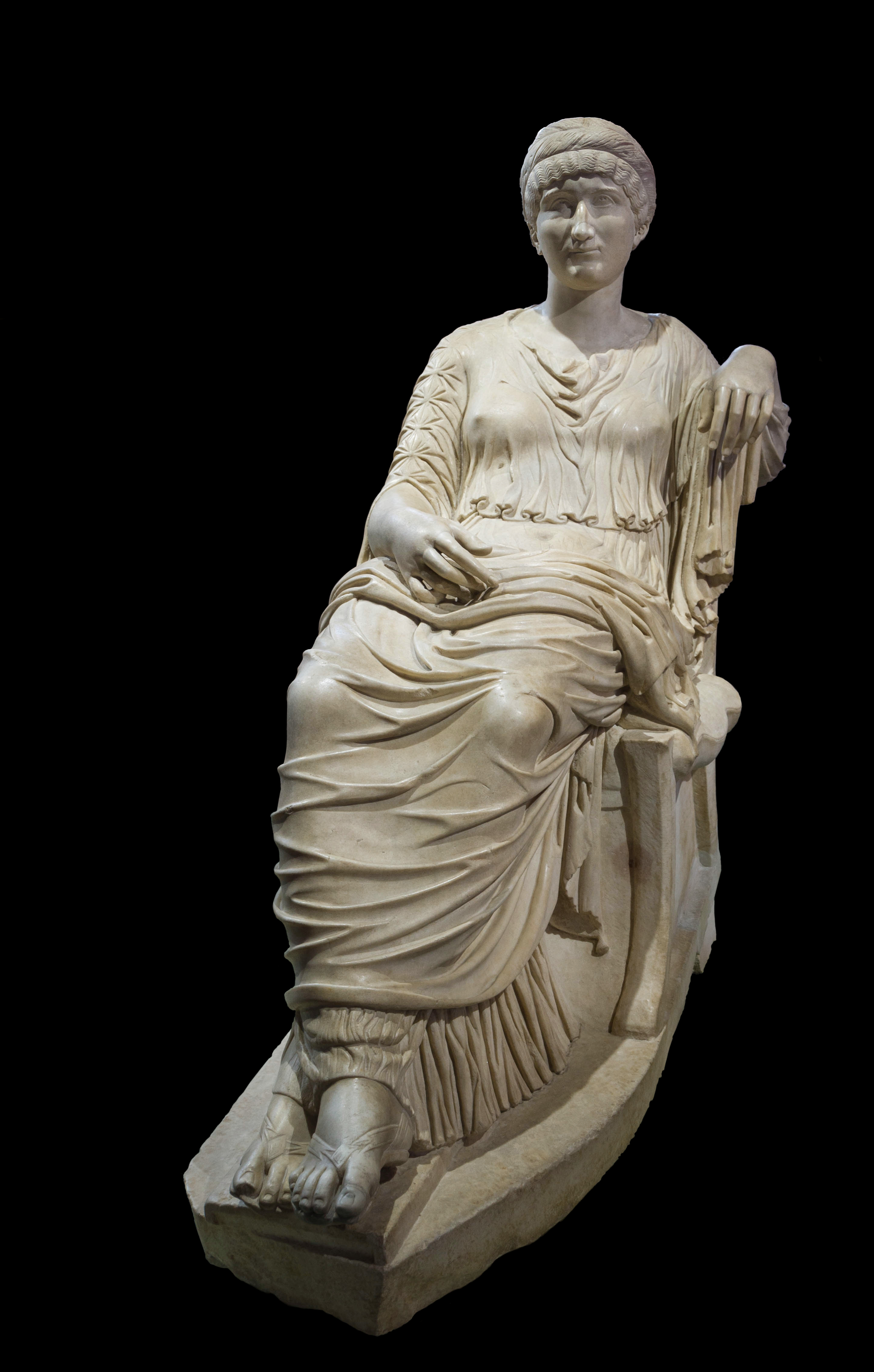 Seated statue of Empress Helena (Saint Helena, mother of Emperor Constantine the Great). Antonine period (second half of 2nd C. A.D.) with head reworked in Constantine period. Displayed as part of the "Constantine 313 d.C." exhibition at the Colosseum (aug.2013). Rome, Italy